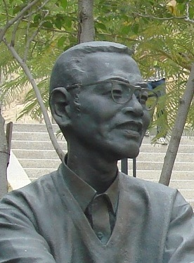 Chen Jing-run, Chinese mathematician.